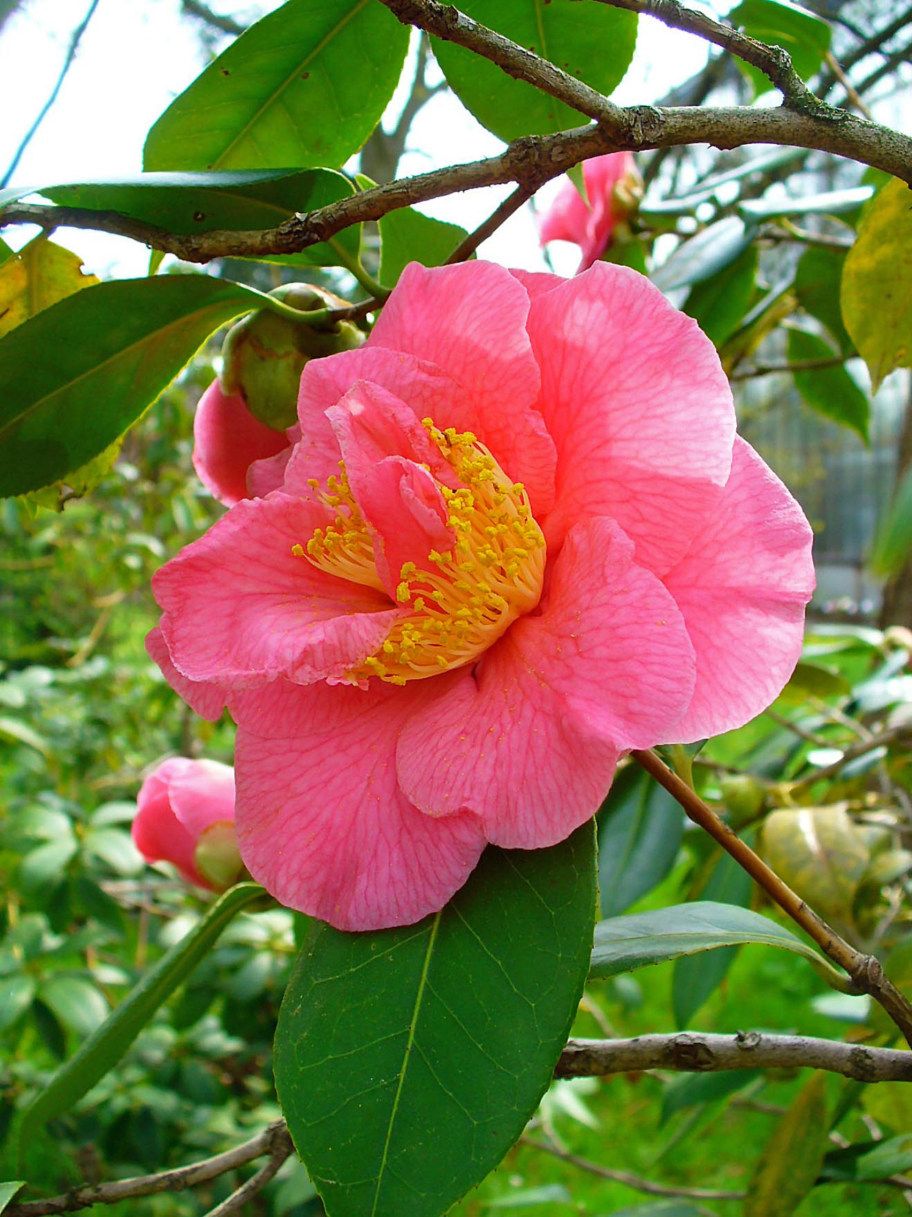 Camellia japonica, Theaceae, Japanese Camellia, flower; Botanical Garden KIT, Karlsruhe, Germany.